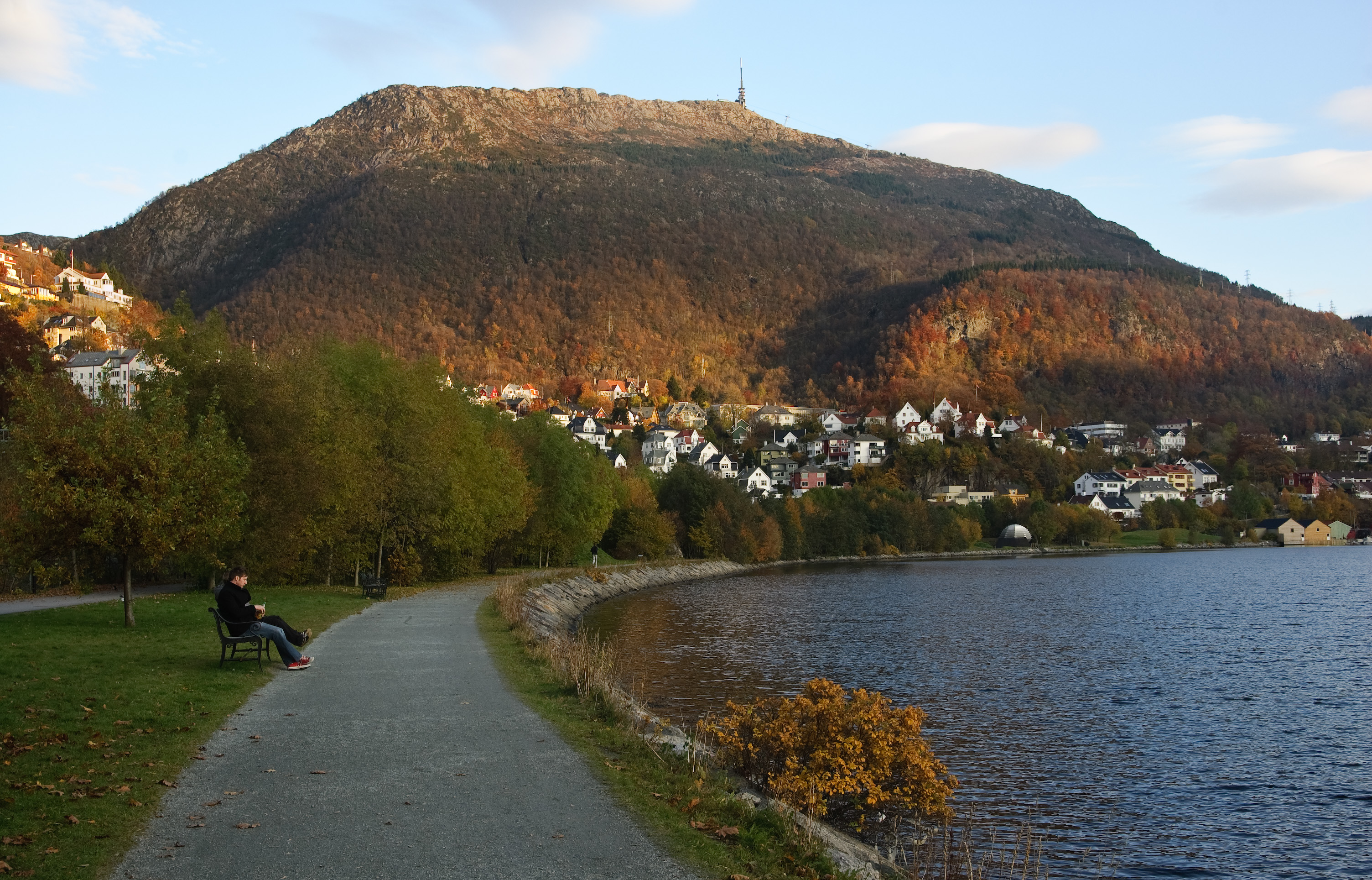 The park by Store Lungegårdsvann, a bay in Bergen, Norway.